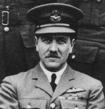 Cropped photograph of Wing Commander Jack Baldwin as Commandant of the RAF's Central Flying School.